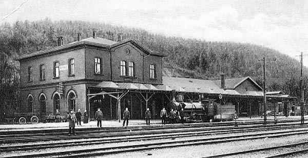 Kettwig railway station, postcard.